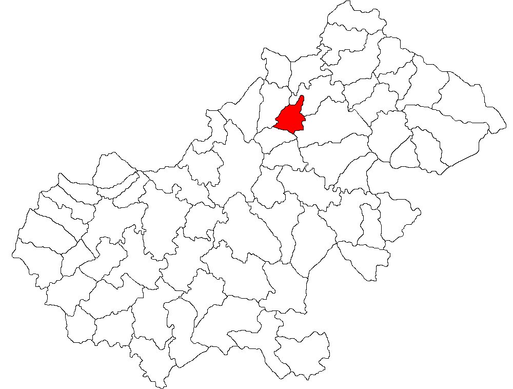 Locator map of the commune of Agriș, Satu Mare County, Rumania